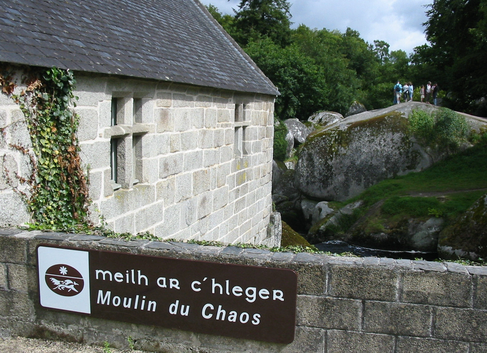 Watermill of Chaos (no longer the tourist office) with bilingual sign and rocks of Chaos behind, Huelgoat, Brittany